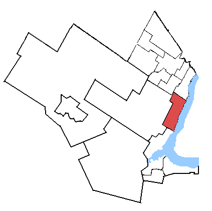 Map of the Oakville electoral district. Based on Earl Andrew's maps, created by SimonP.